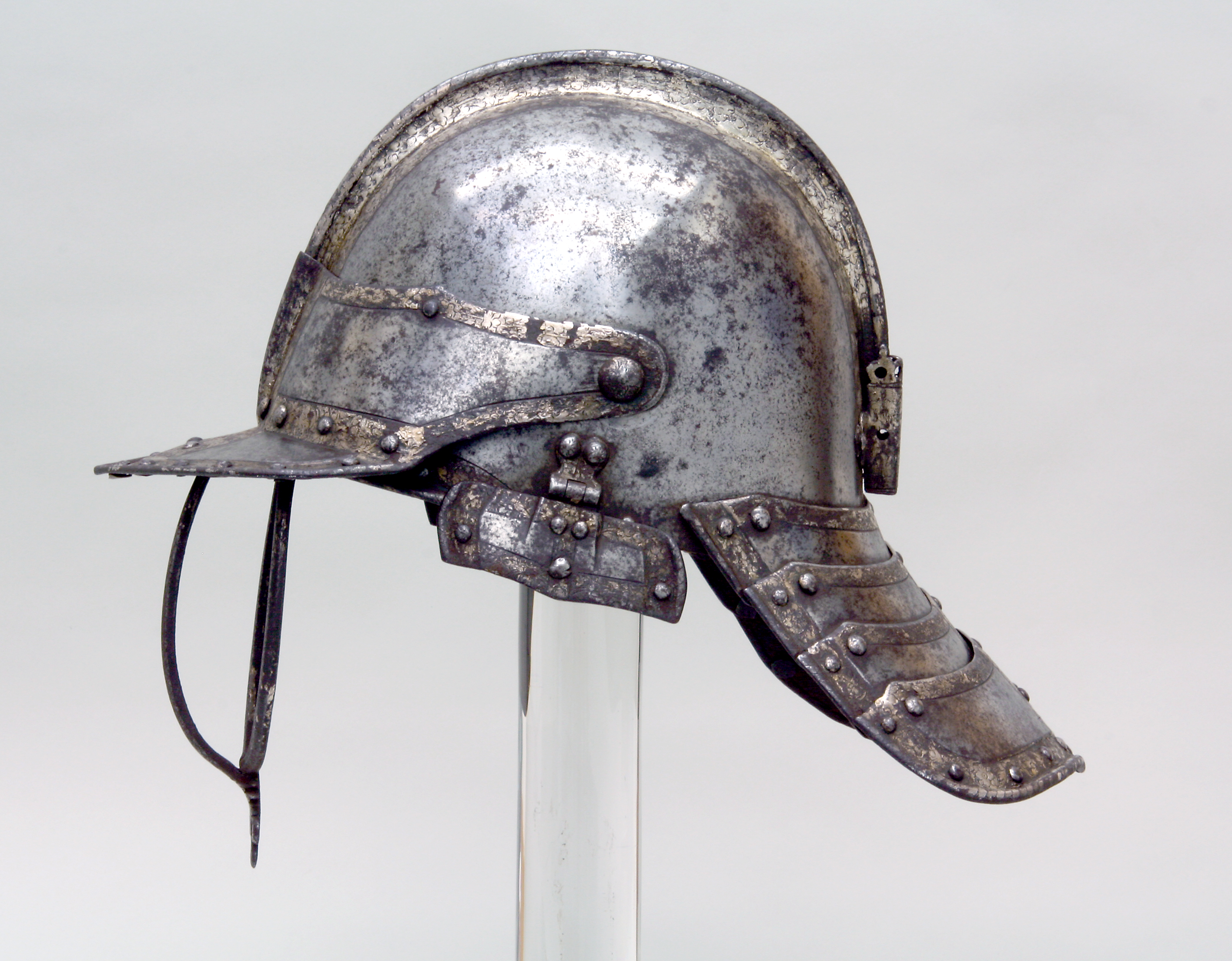 British, London or Greenwich; Helmet for a harquebusier; Helmets